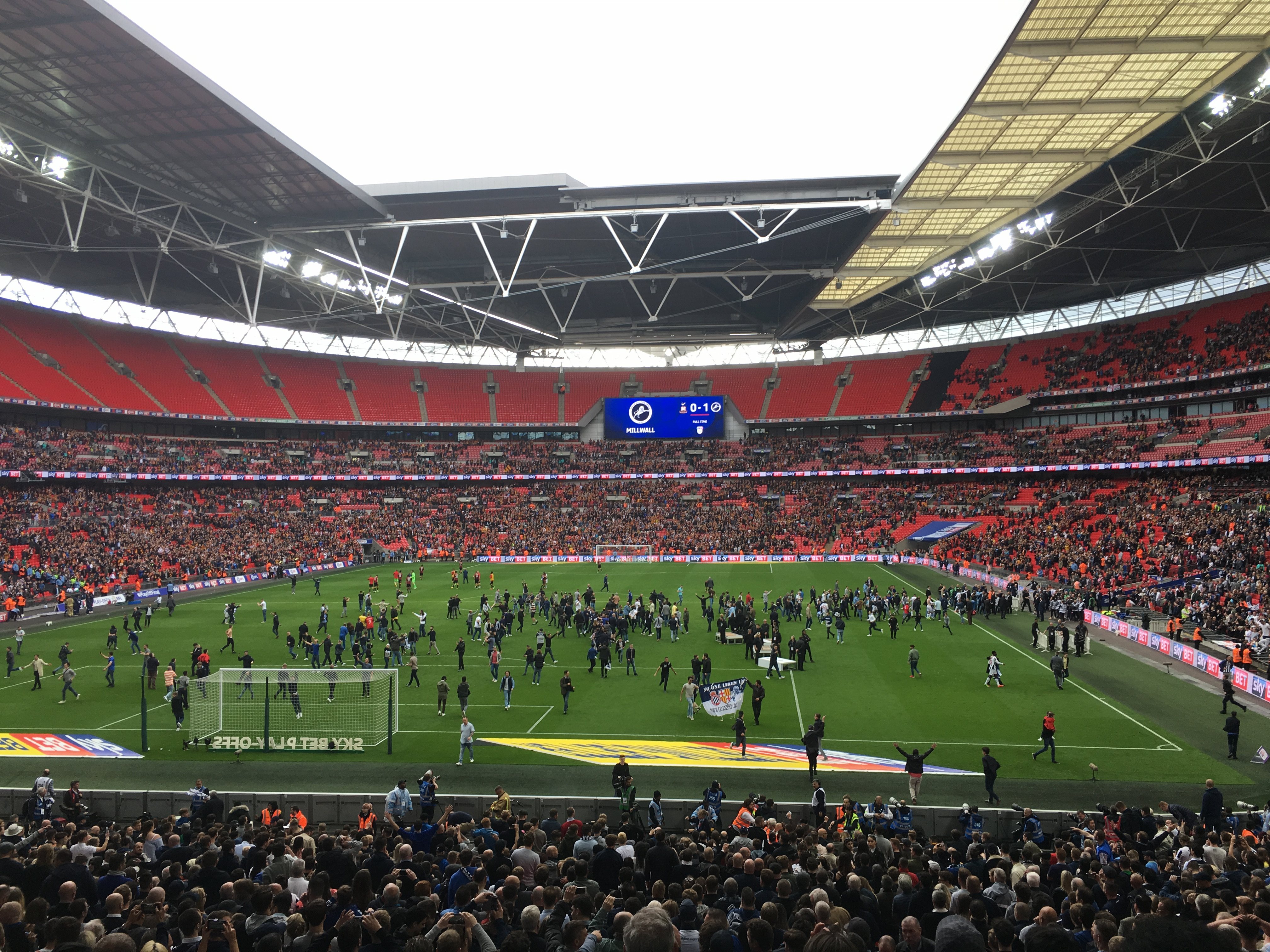 The first pitch invasion at the new Wembley Stadium by Millwall fans, after their League One playoff final win over Bradford City.